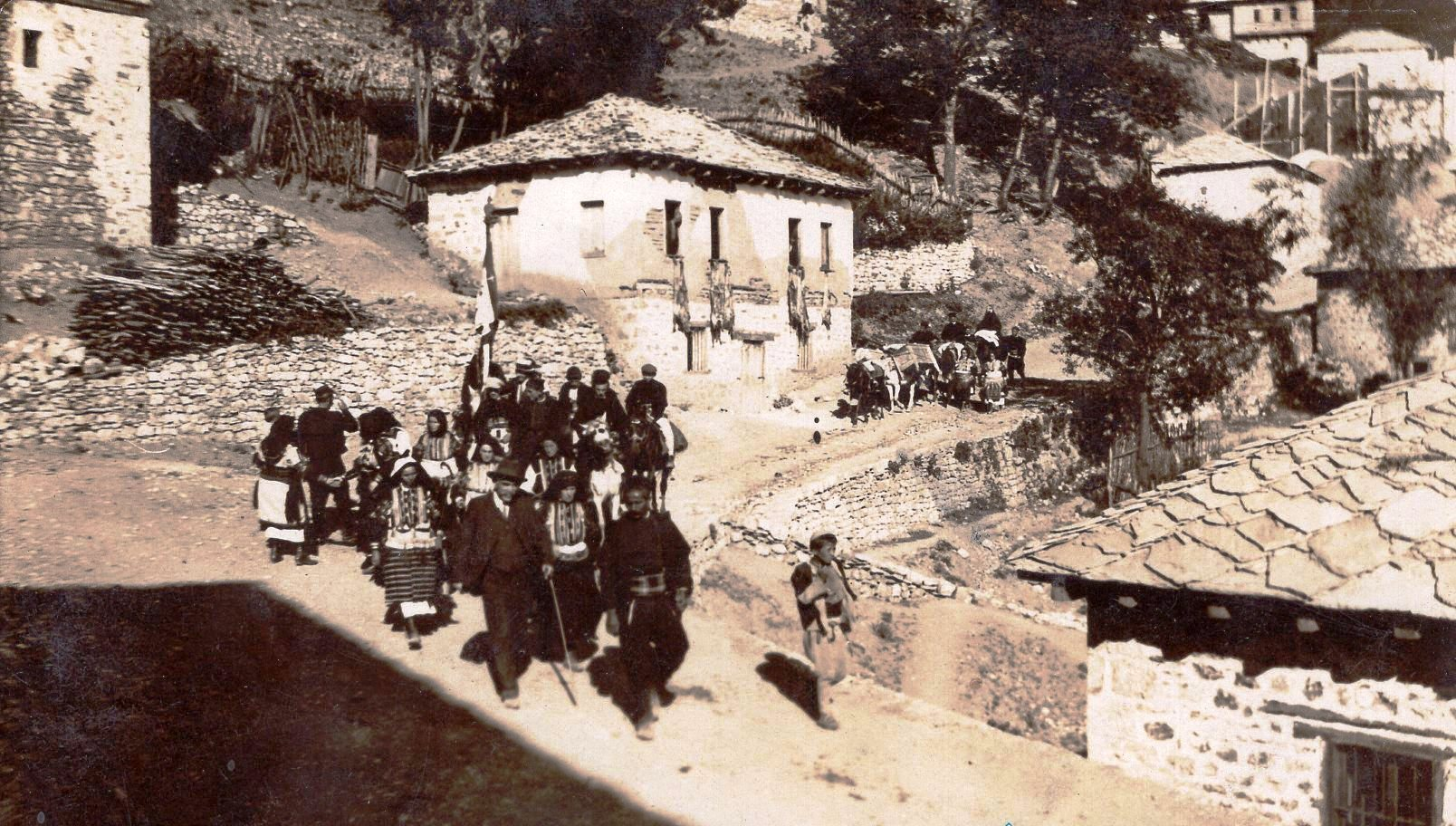 Village Glumovo, Republic of Macedonia, 1920's This media file is produced by Wikipedian in Residence in Category:Wikipedian in Residence at DARM in 2016.